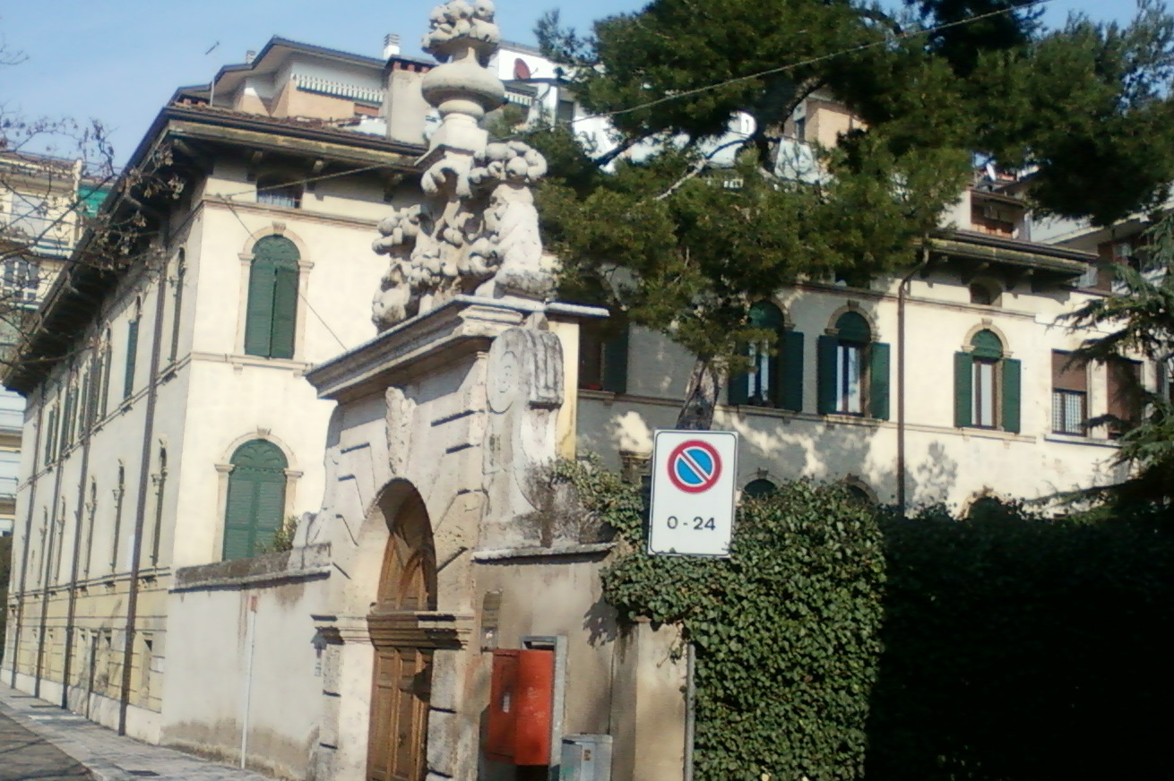 Palazzo Gazola